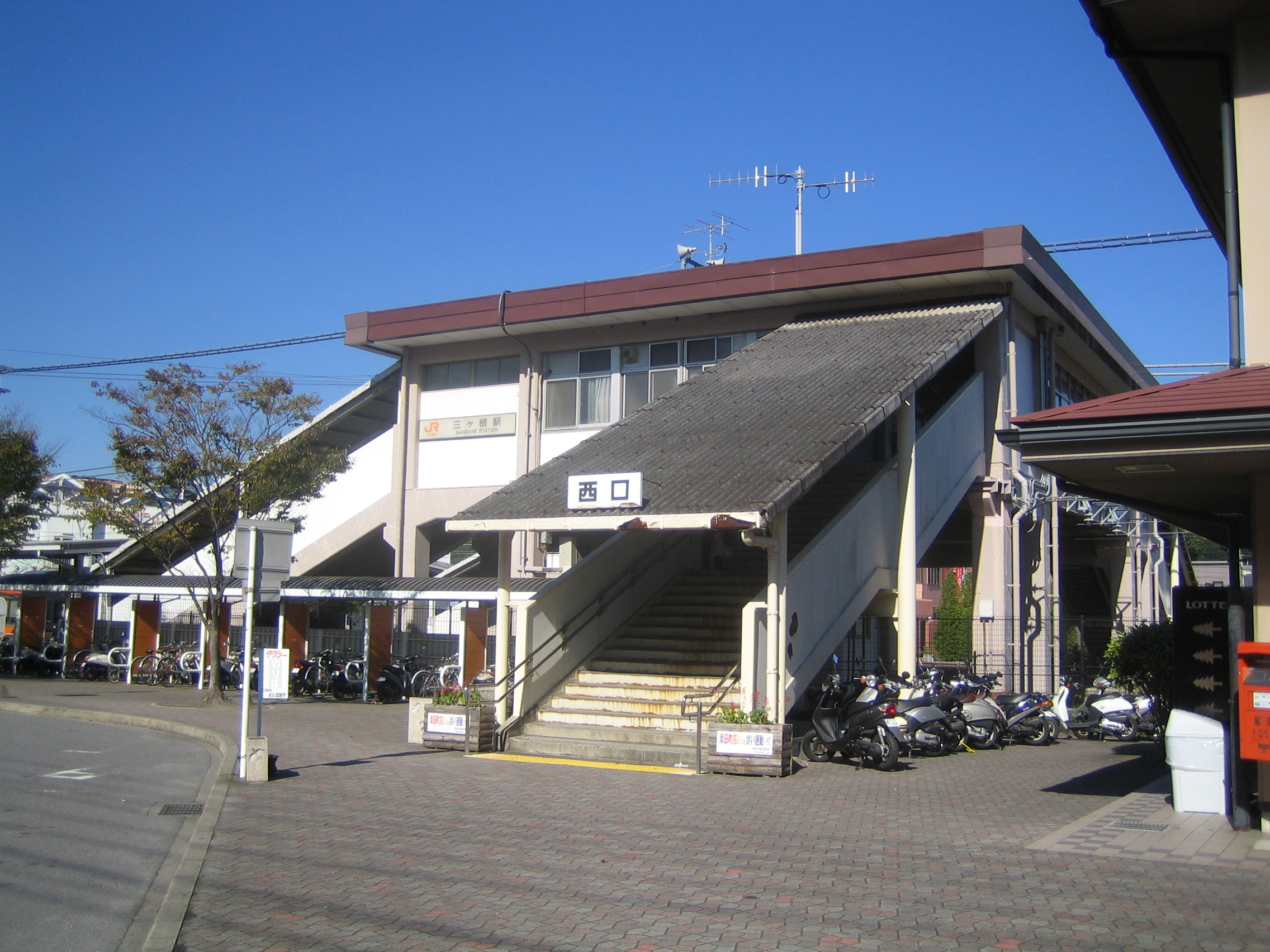 Sangane Sta. (三ヶ根駅), in Kota, Aichi, Japan